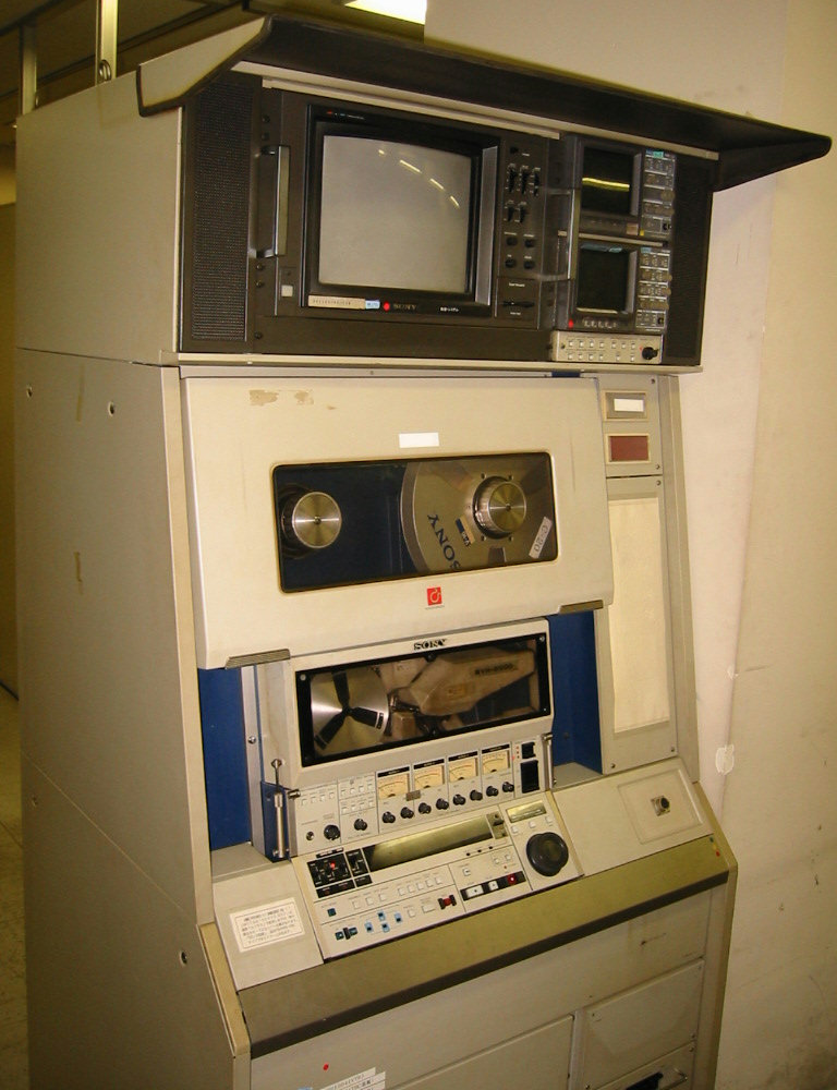 SONY BVH-2000 1inch Video Tape Recorder SONY Co., Ltd. Photo by Mangos